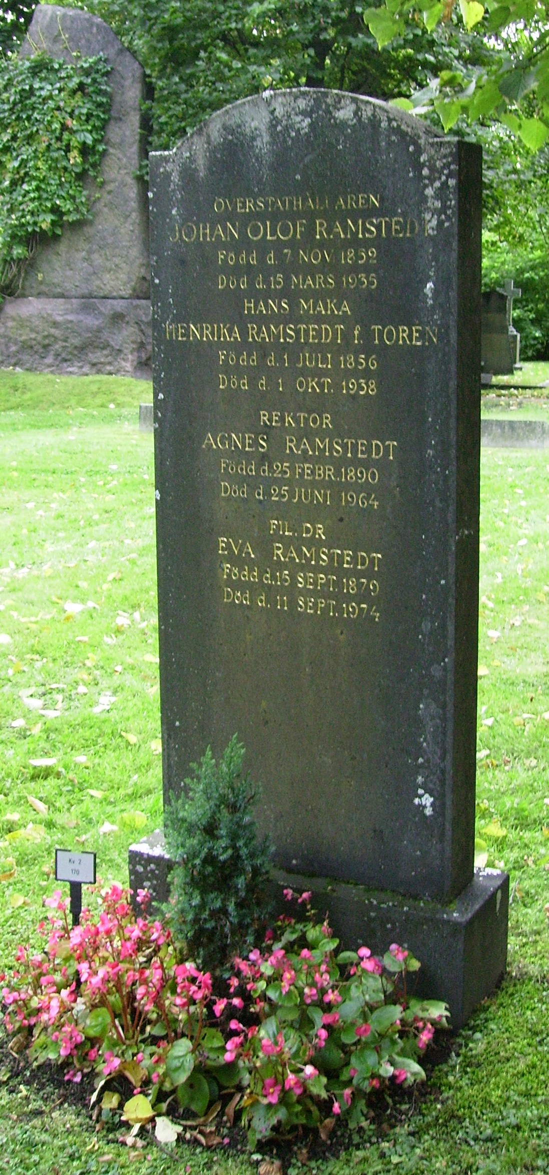 Picture of Johan Ramstedt's grave at Norra begravningsplatsen in Solna